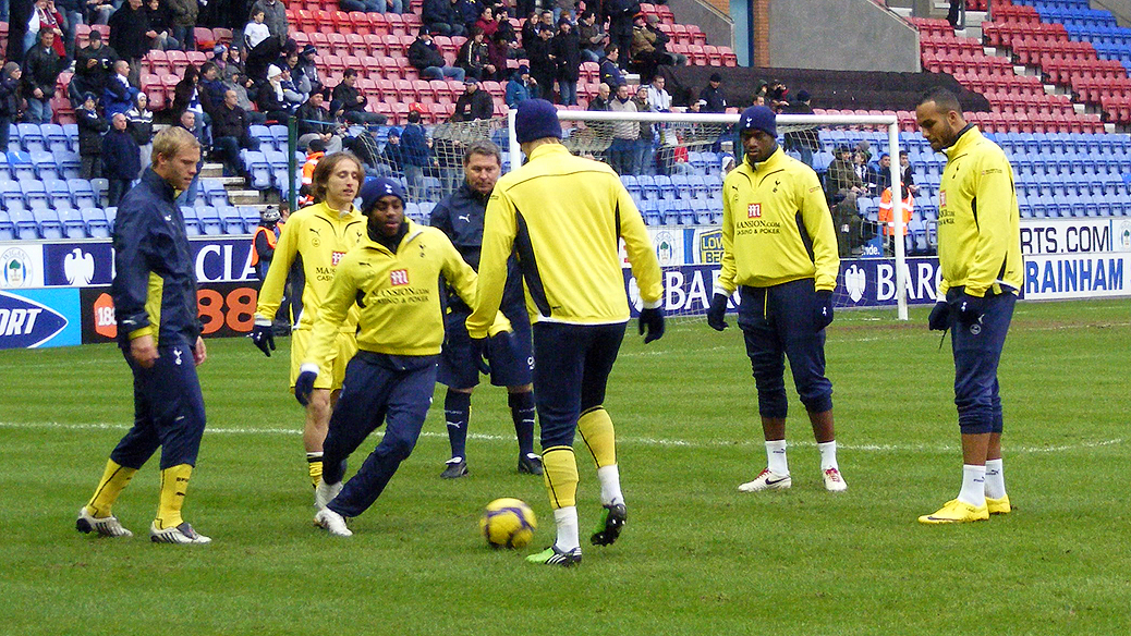 Tottenham Hotspur players warming up